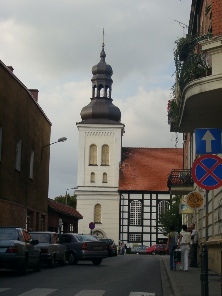 Little church in Ostrów Wielkopolski